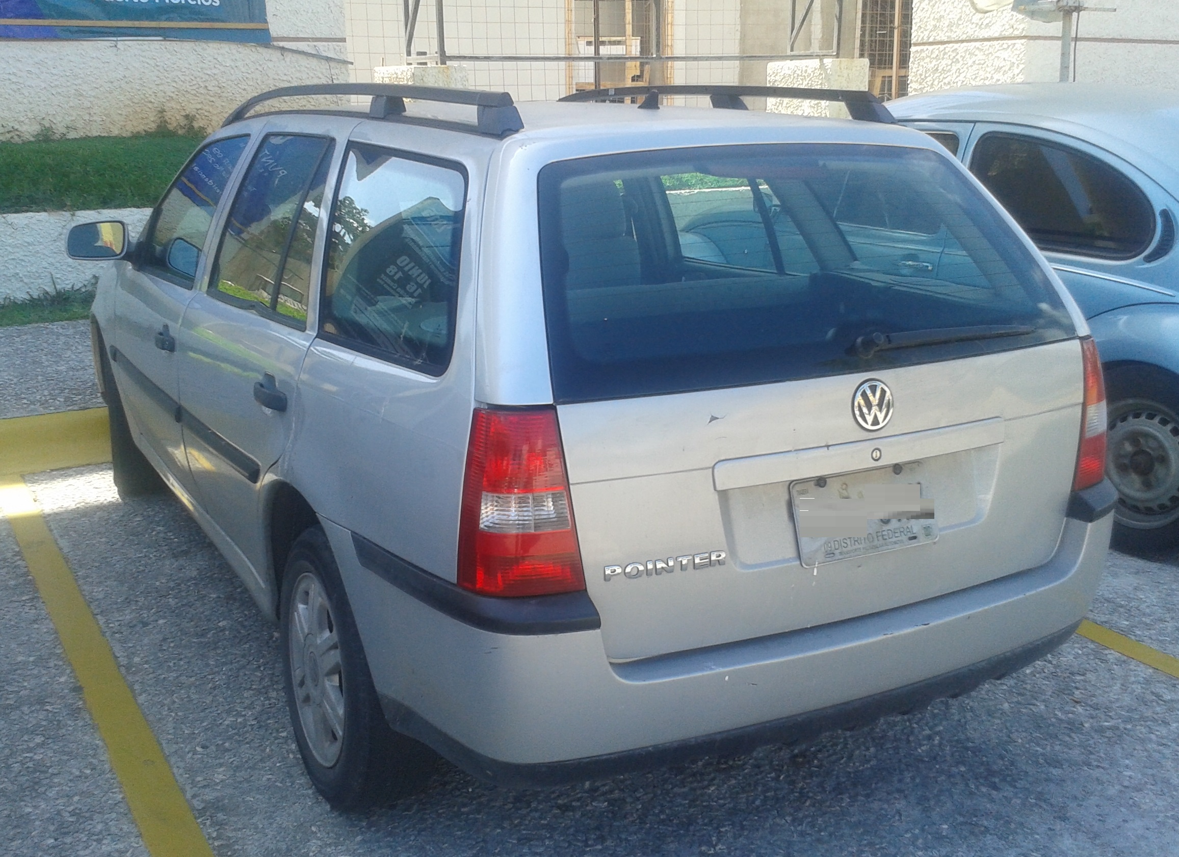 Volkswagen Pointer photographed in Cancun, Quintana Roo, Mexico.